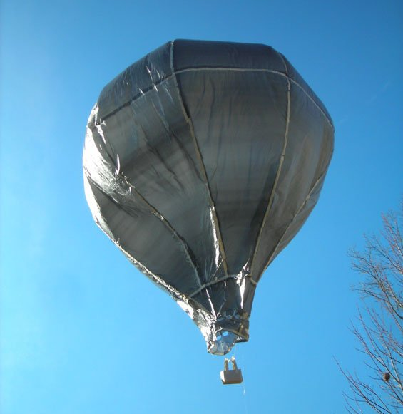 Photo by Catman, Webmaster